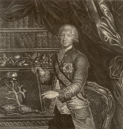 Pavel Grigorievich Demidov, the founder of Yaroslavl Demidov State University. Picture from the book: S.P.Pokrovsky. Demidovsky licey v ego proshlom i nastoyaschem. Yaroslavl, 1914.